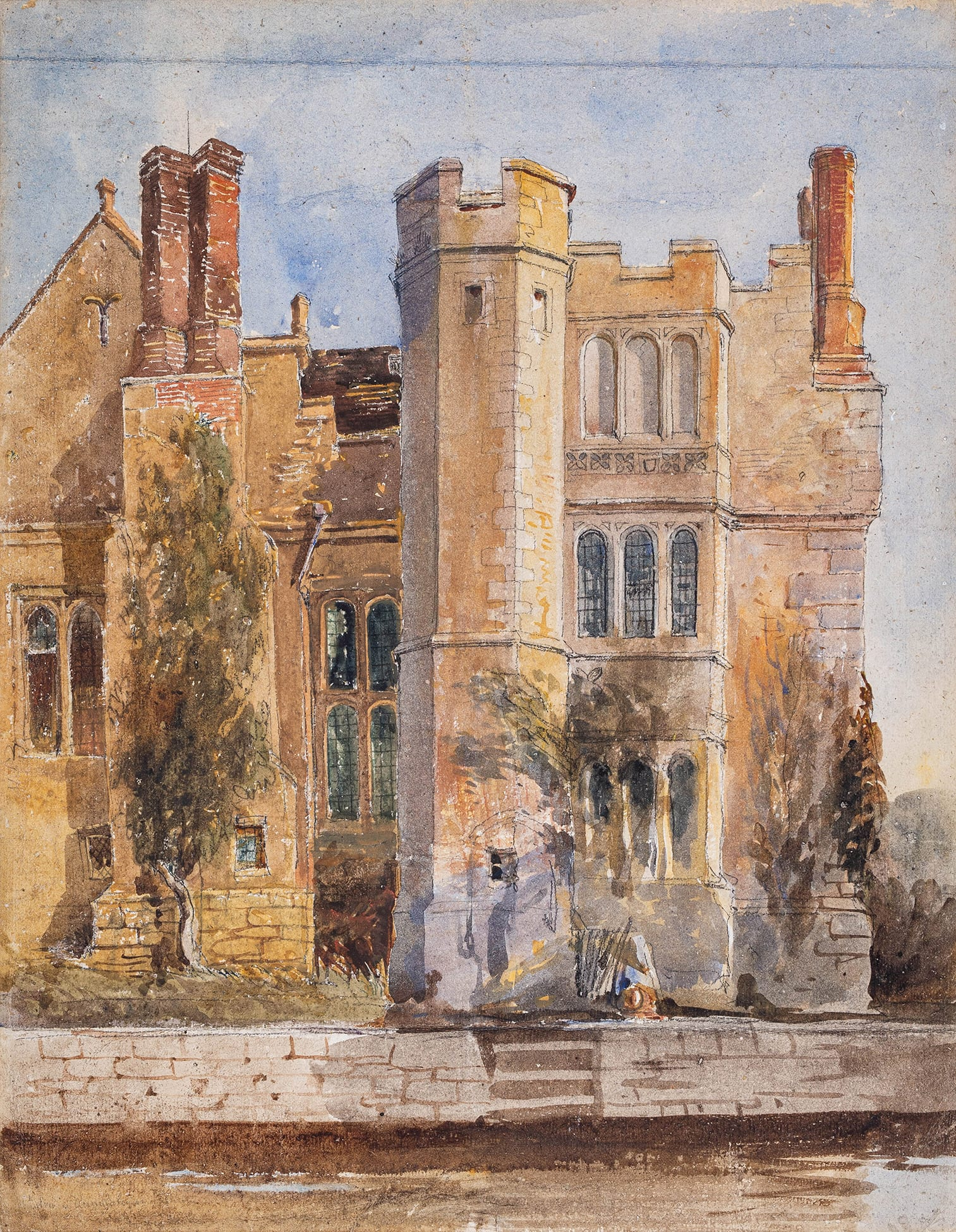 Offered for sale by Abbott and Holder in January 2020 when it was described as "COX David Jnr (1809-1859) Hever Castle from the Moat. Pencil and watercolour. Circa 1850. 17.25x14.25 inches."